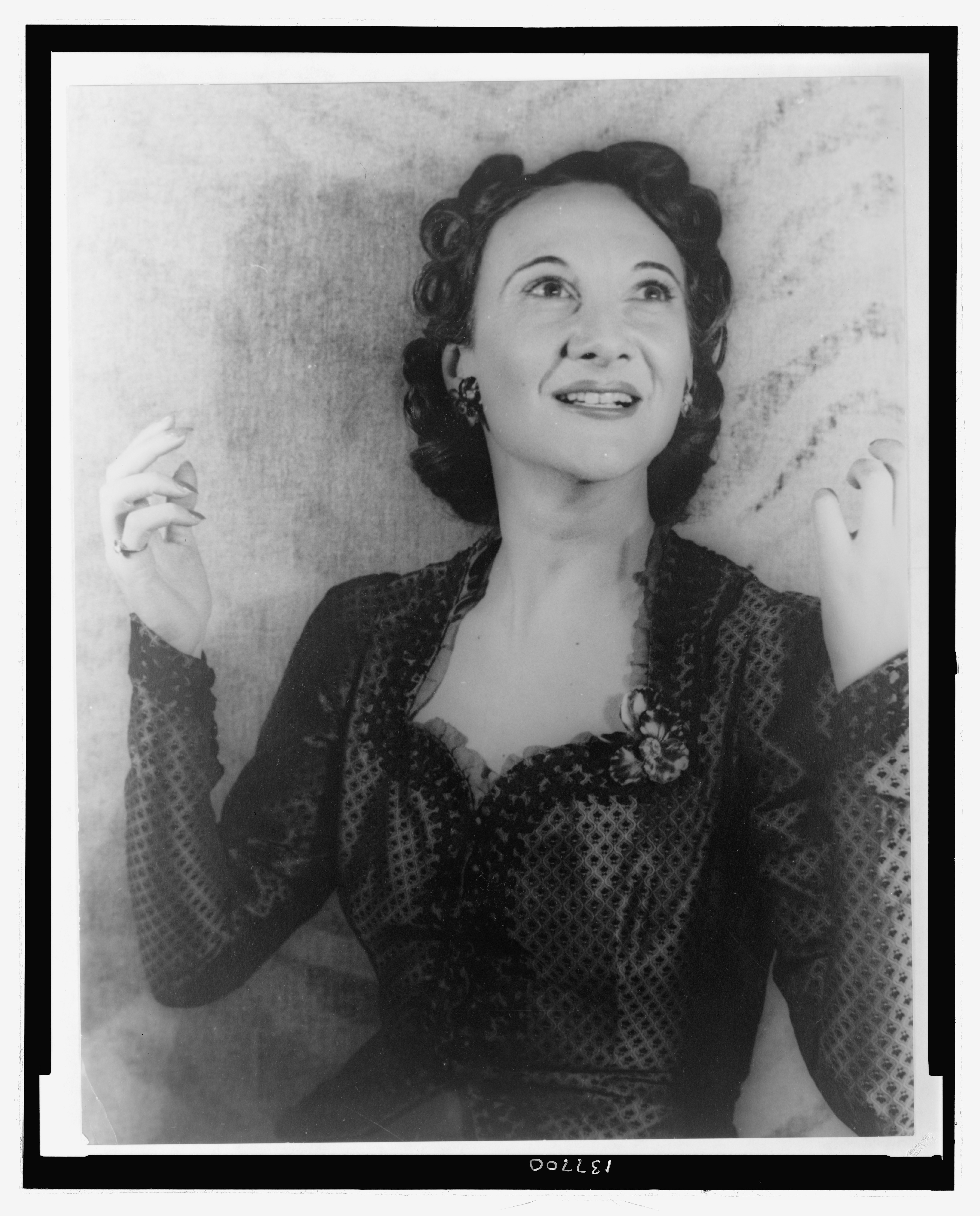 Title: Portrait of Greta Keller Abstract/medium: 1 photographic print : gelatin silver.